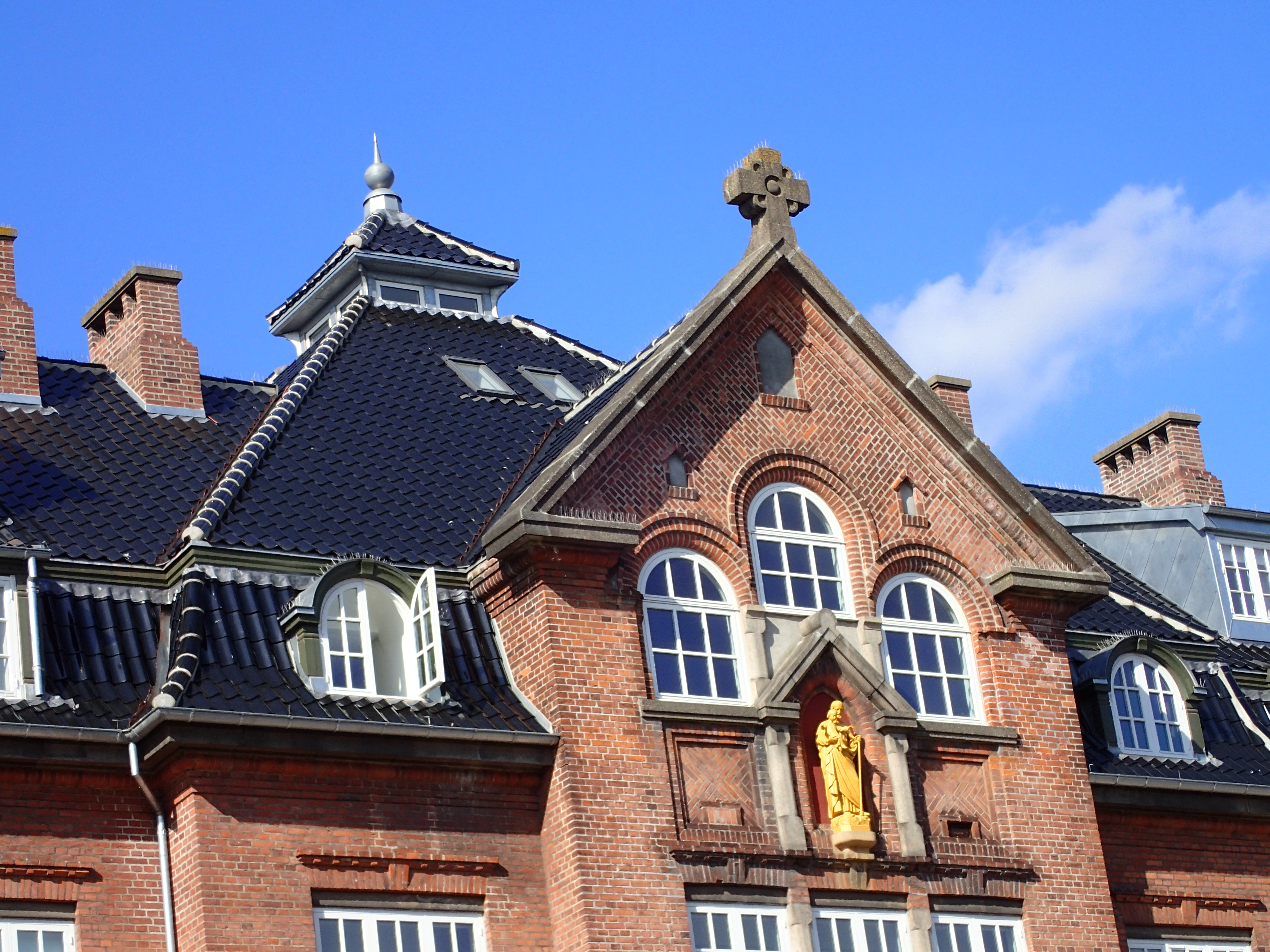 Sankt Josephs Hospital.